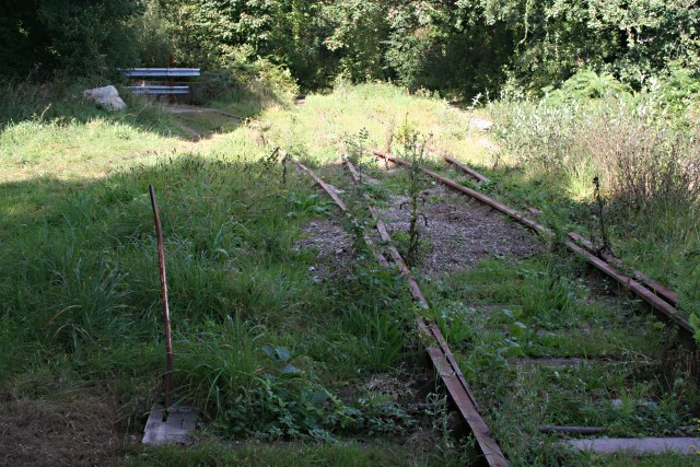 Abandoned railway sidings at Ponts Mill near st Blazey Cornwall. This is the remains of the Treffry Tramway and was used as a siding for clay and stone traffic after the tramway was diverted by the Cornwall Minerals Railway to become their Par to Newquay line.